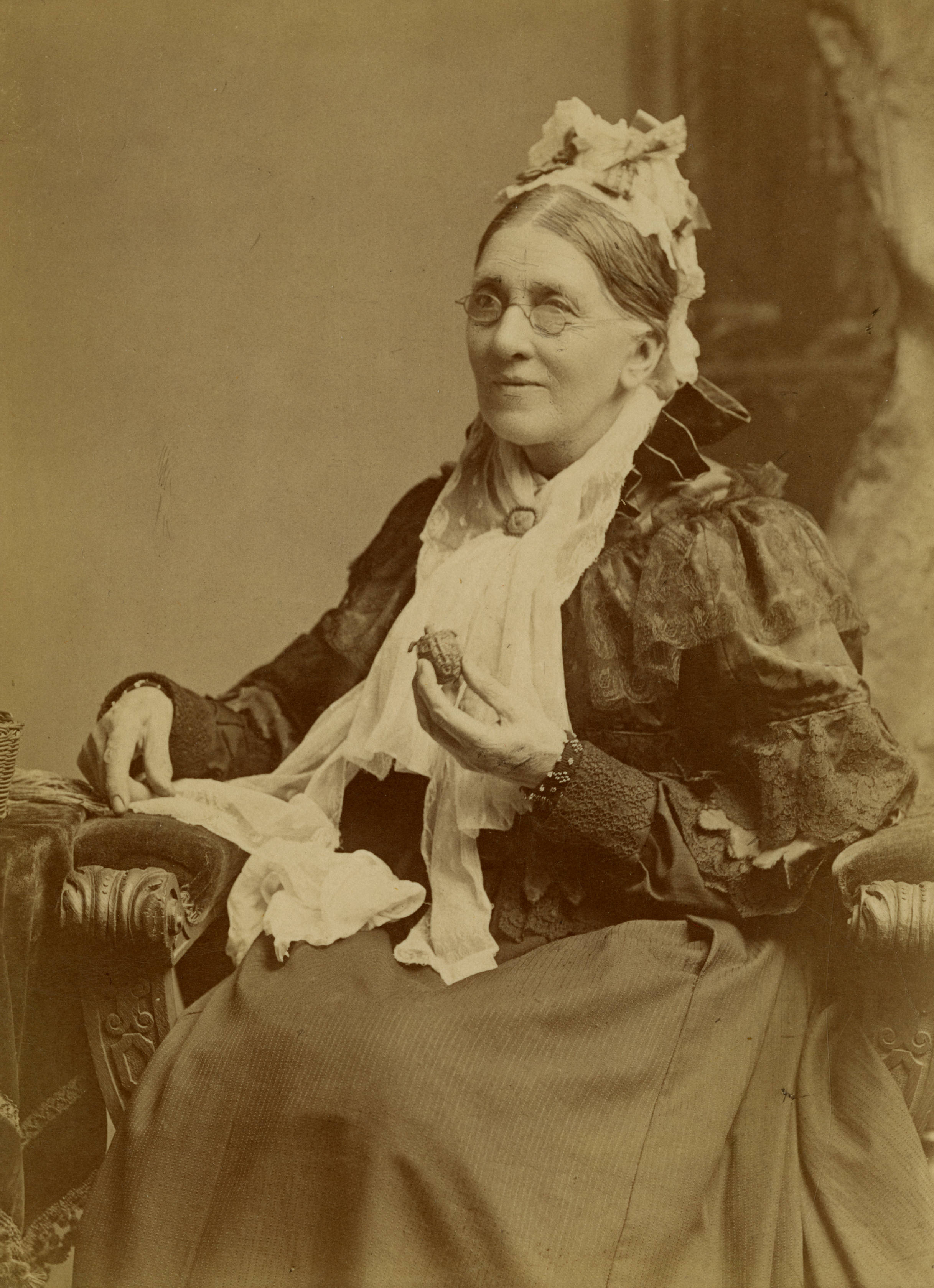 Writer and naturalist Catherine Cooper Hopley holding a baby turtle